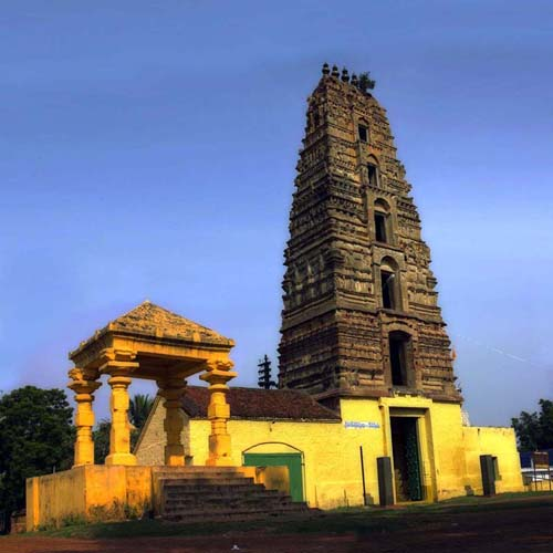 This is temple of Swami Nageswara at Chebrolu, Guntur District. The land of 101 temples